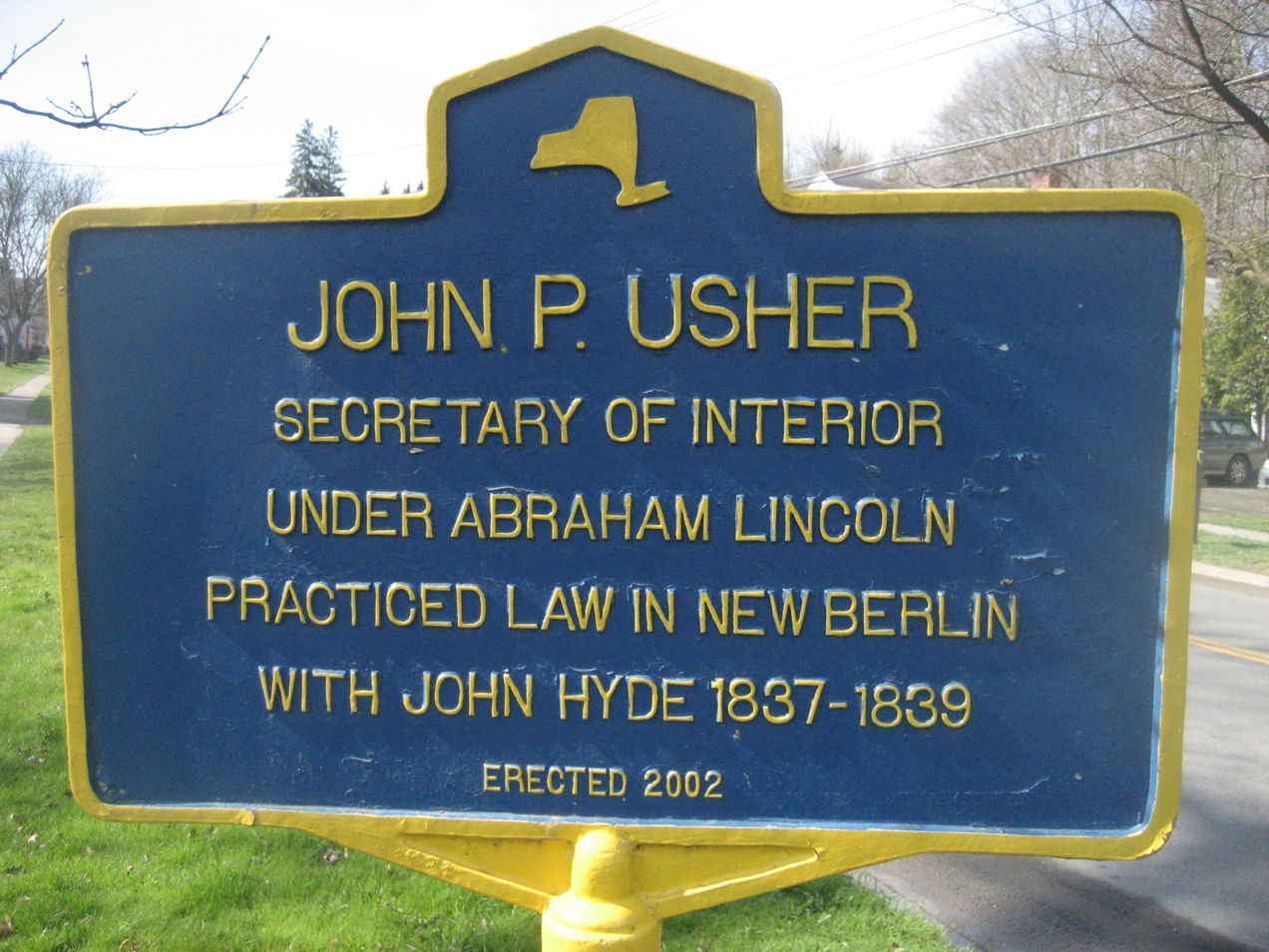 Historic marker of John P. Usher, Secretary of the Interior under President Lincoln. Practiced law in New Berlin, NY with John Hyde 1837-1839.